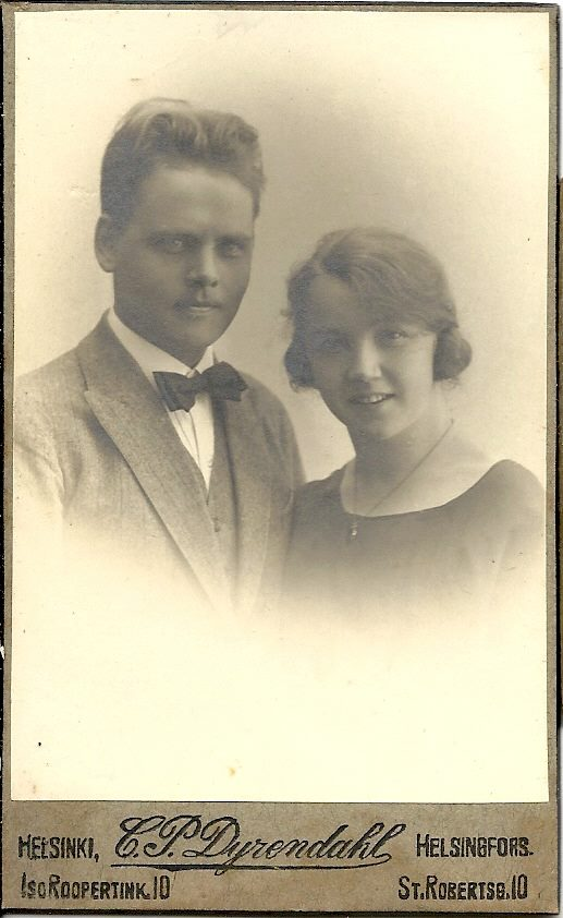 Finnish composer and his wife.